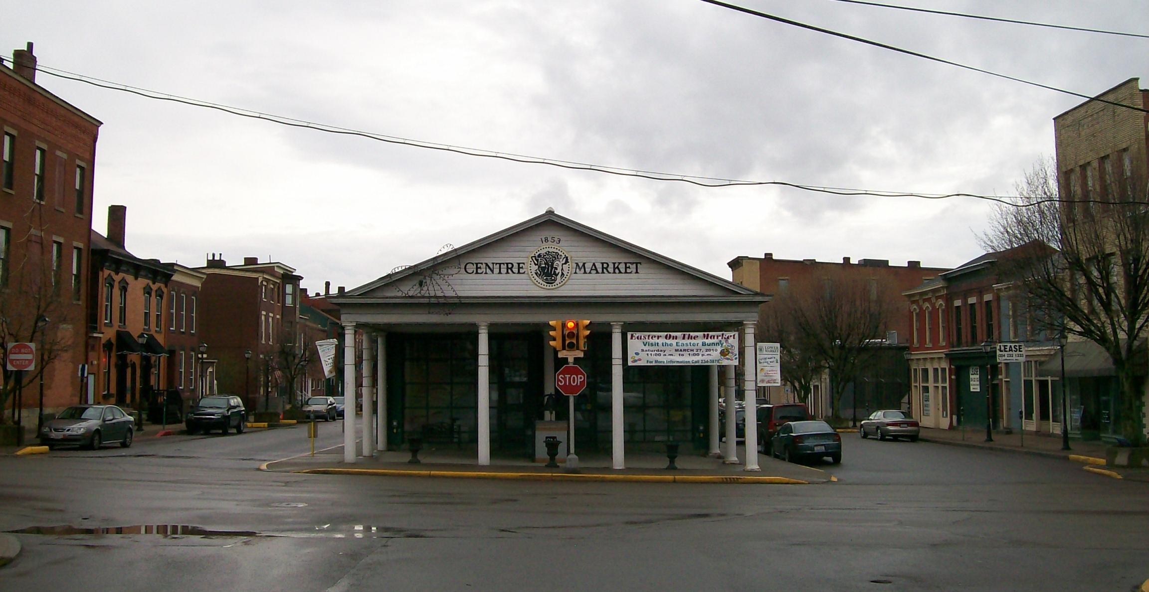 The Center Market Square Historic District in Wheeling, West Virginia. The district is pictured from the corner of Market and 22nd Street looking south. Market Street splits to go around the Center Market block with the south-bound lane on the right and the north bound lane on the left. The district was placed on the NRHP. Taken on 2010-03-28.